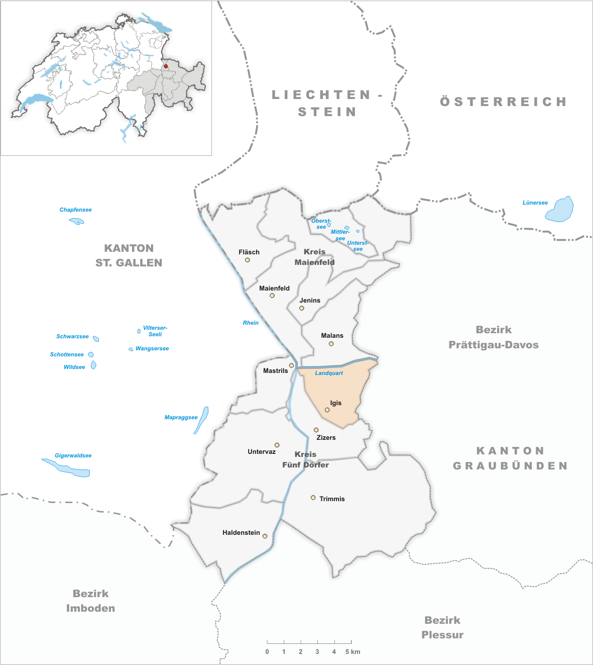 Municipality Igis